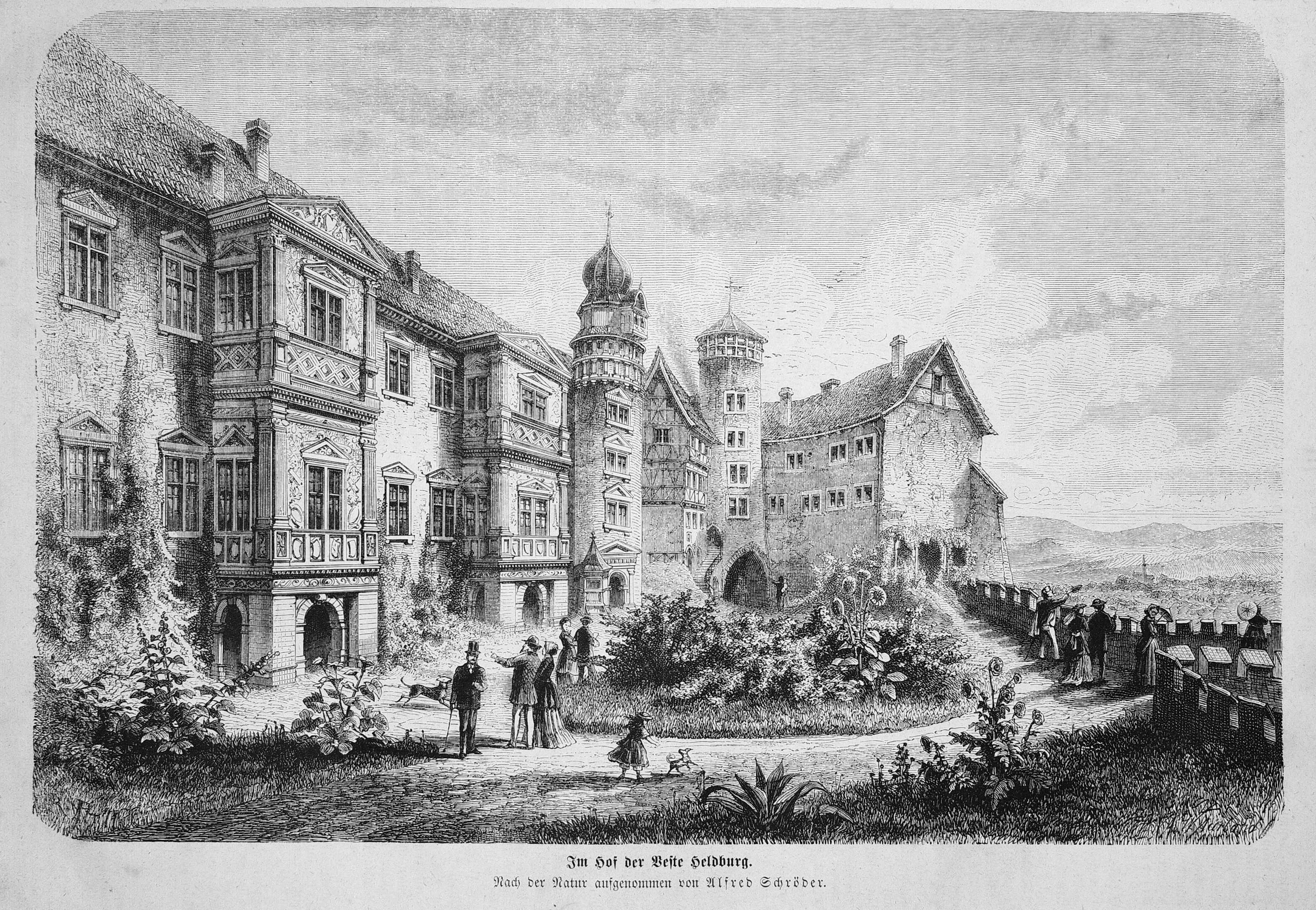 caption: "Im Hof der Veste Heldburg. Nach der Natur aufgenommen von Alfred Schröder."